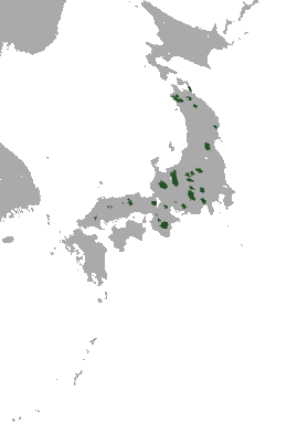 Japanese Mountain Mole (Euroscaptor mizura) range